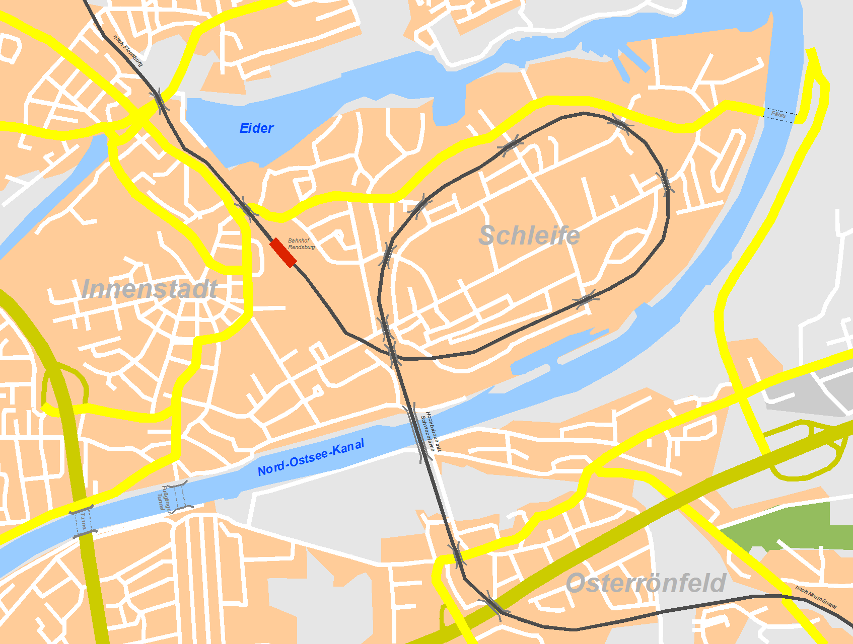 map of Rendsburg, Germany with schematic depictation of railway line and Kiel channel crossings